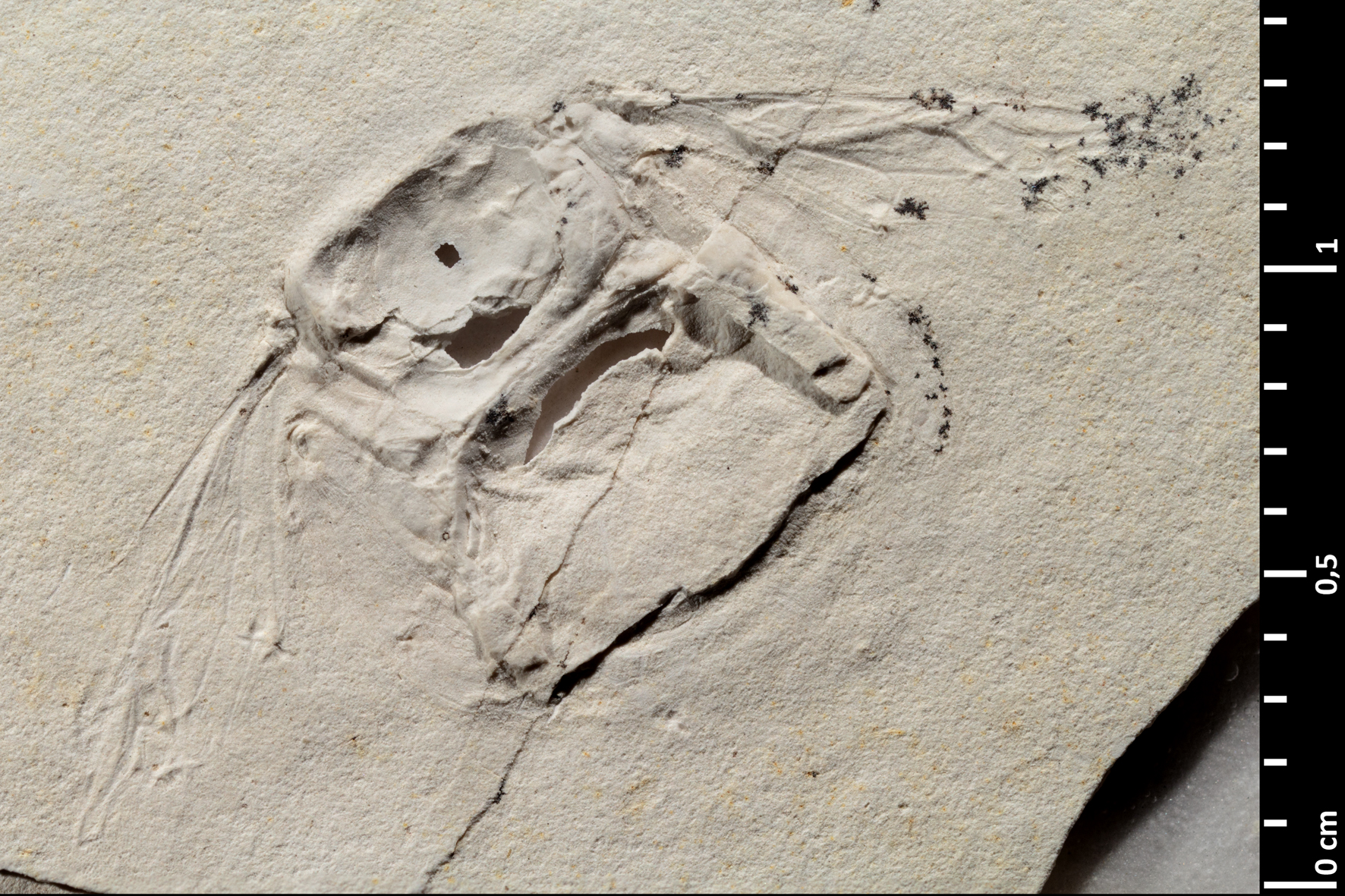 The Xylocopa celineae holotype part specimen with direct lighting. Chattien, Oligocene; Camoins-les-Bains, Bouches-du-Rhone, France Muséum national d'Histoire naturelle specimen MNHN.F.A51118